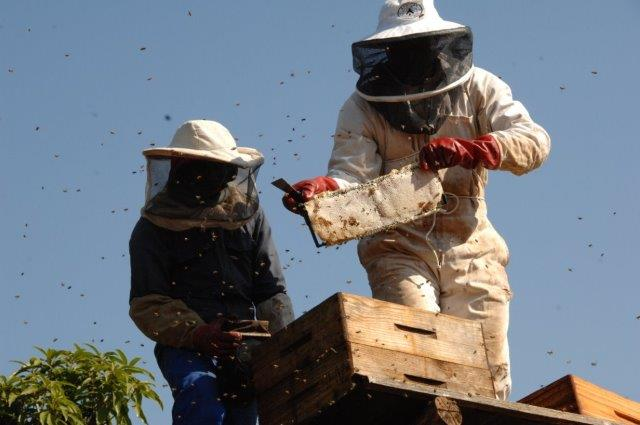 This photo is protected under creative commons copyright by Guy Stubbs